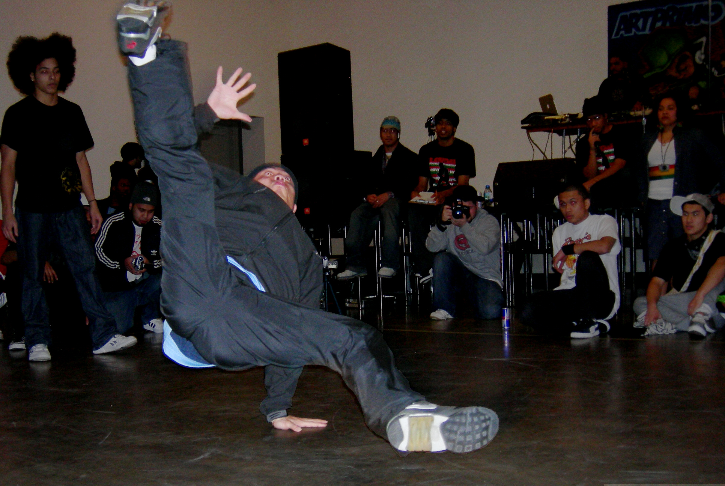 Dance competition. Third Anniversary of Zulu Nation Seattle Celebration of Hip Hop Culture, part of Festival Sundiata, a Festál event at Seattle Center, Seattle, Washington.